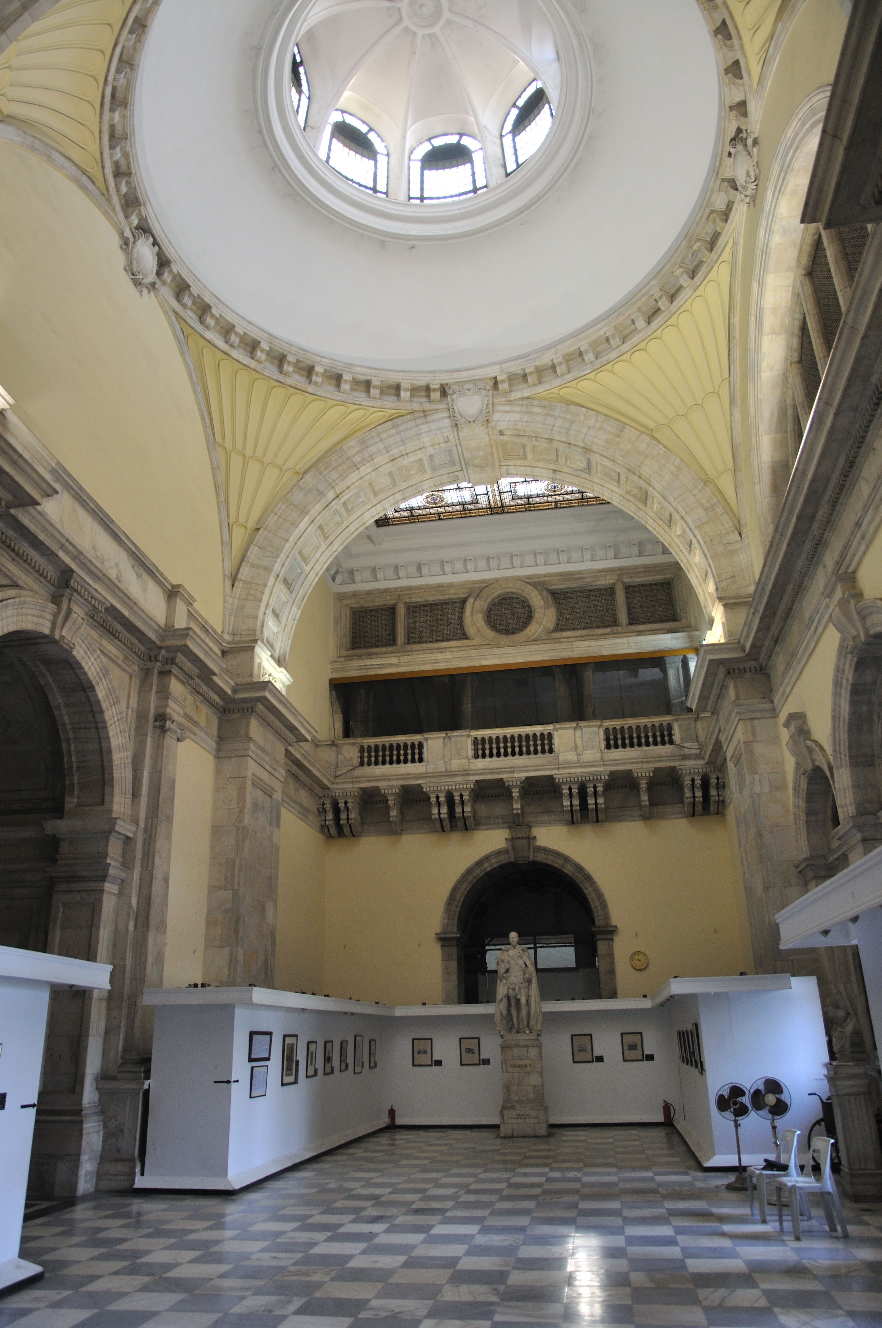 The first hall of he Victoria Memorial Hall, Kolkata is a memorial of Queen Victoria of the United Kingdom who also carried the title of Empress of India. It currently serves as a museum under Ministry of Culture, Government of India, and a tourist attraction.